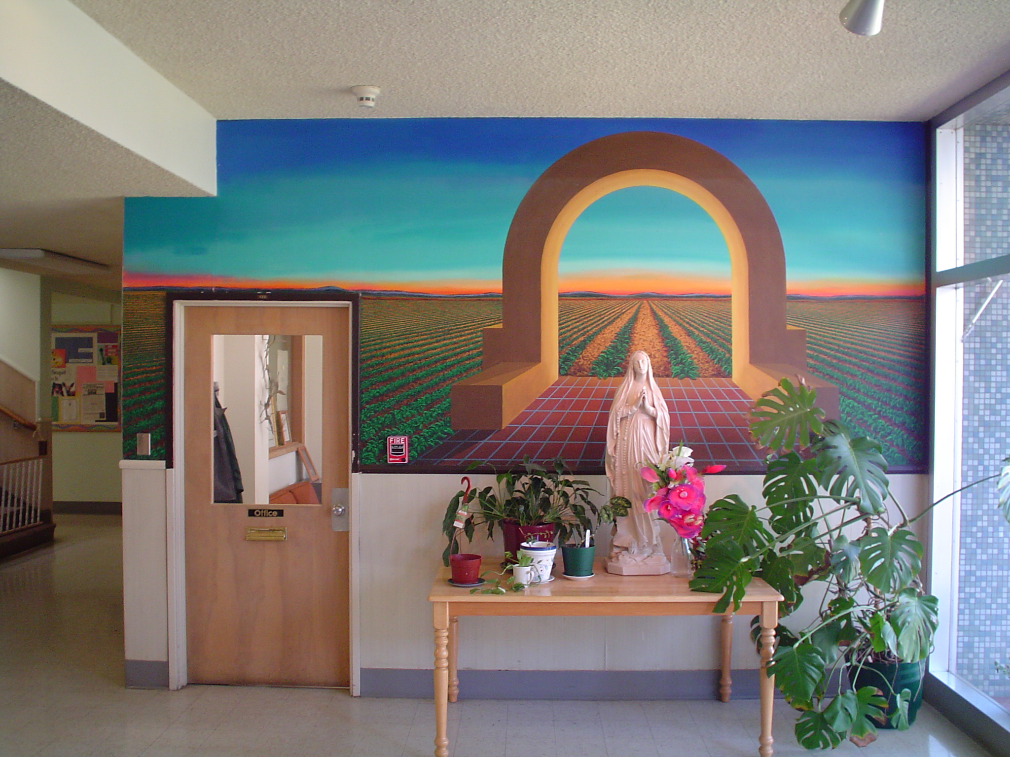 Mural at Colegio Cesar Chavez, in Marion County, Oregon.